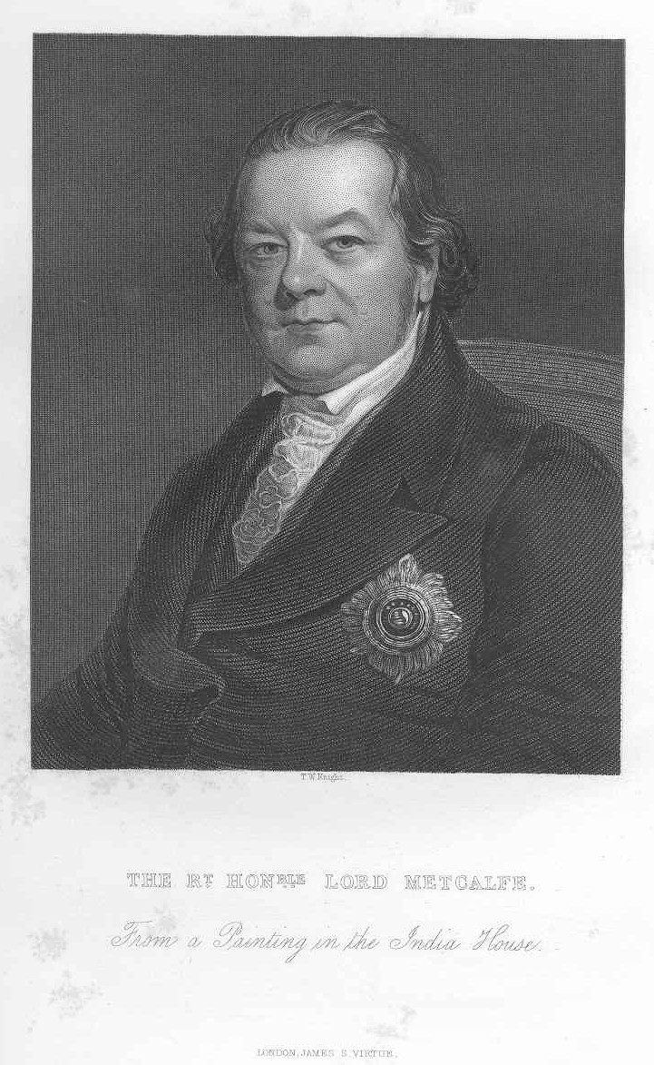 Theophilus Metcalfe (1785-1846)